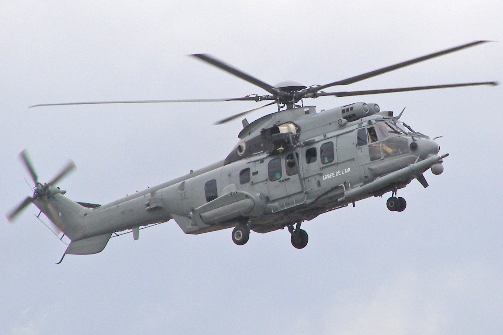 Eurocopter EC-725R2 Caracal (Serial Number 2552) of the French Air Force at the Royal International Air Tattoo 2009 at RAF Fairfod, England